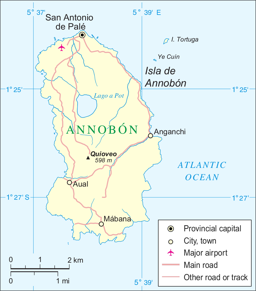 Maps of Annobon island, (Equatorial Guinea) in Spanish